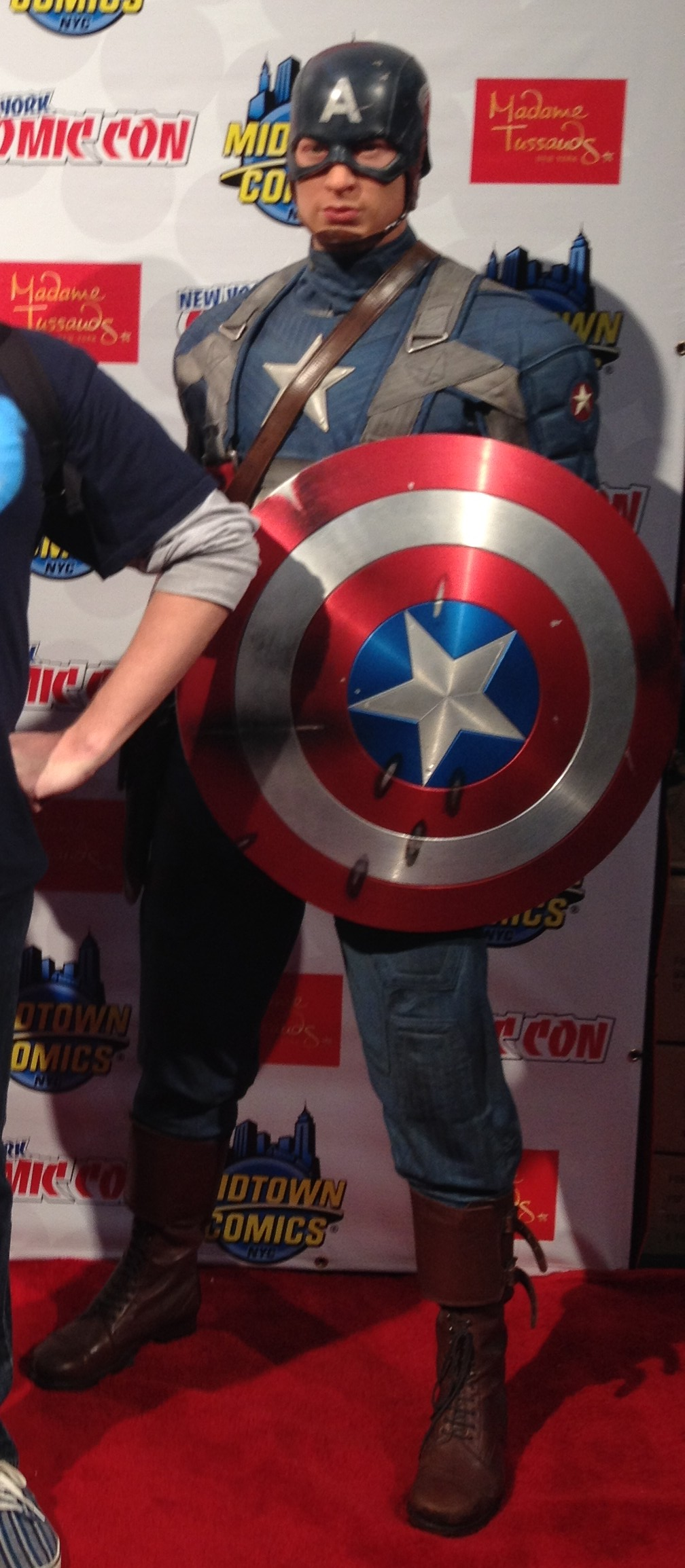 Me at NYCC